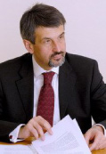 Konstantin Dimitrov, Bulgarian politician from Democrats for a Strong Bulgaria